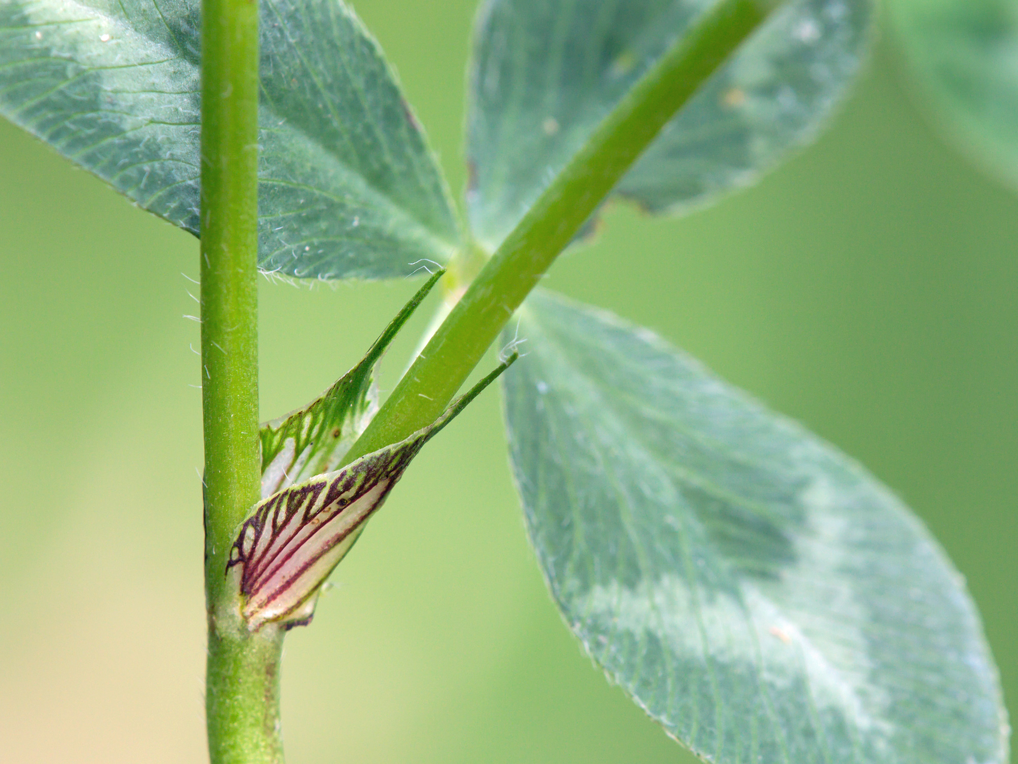 Detail of Red Clover (Trifolium pratense). Note the typically shaped stipules.